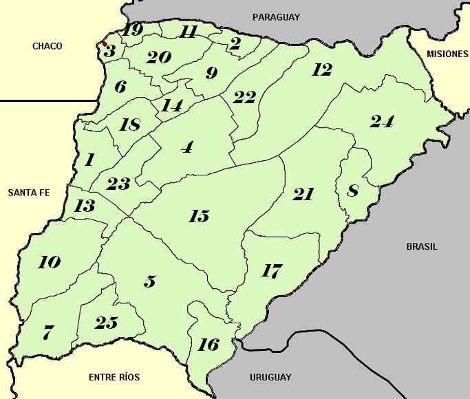 It shows the administrative division of Corrientes province in Argentina, and its capital.